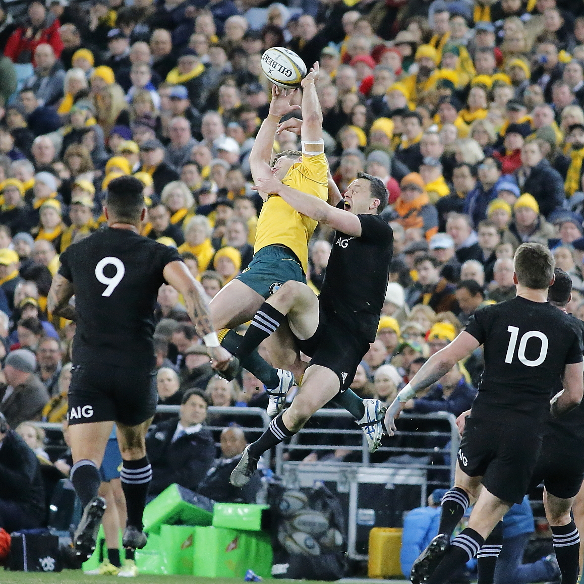 2017.08.19.20.36.19-Foley high ball-0003 2017 Rugby Championship, Bledisloe 1, Australia vs New Zealand, 19th August, ANZ Stadium, Sydney